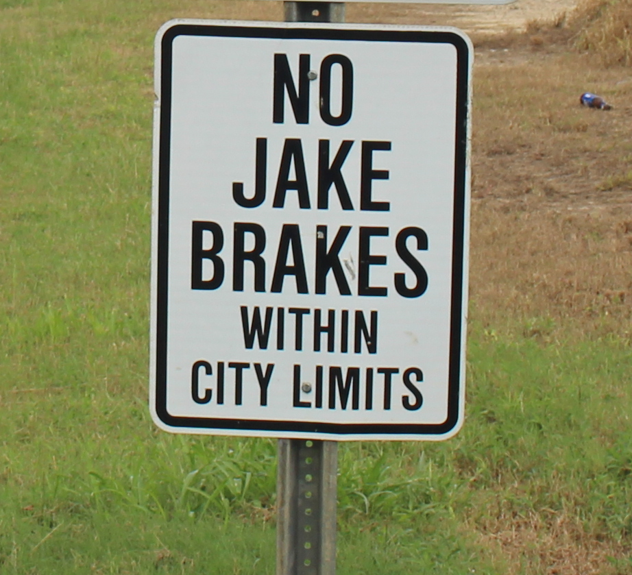 Unadilla city limit US41NB, Unadilla, Dooly County, Georgia